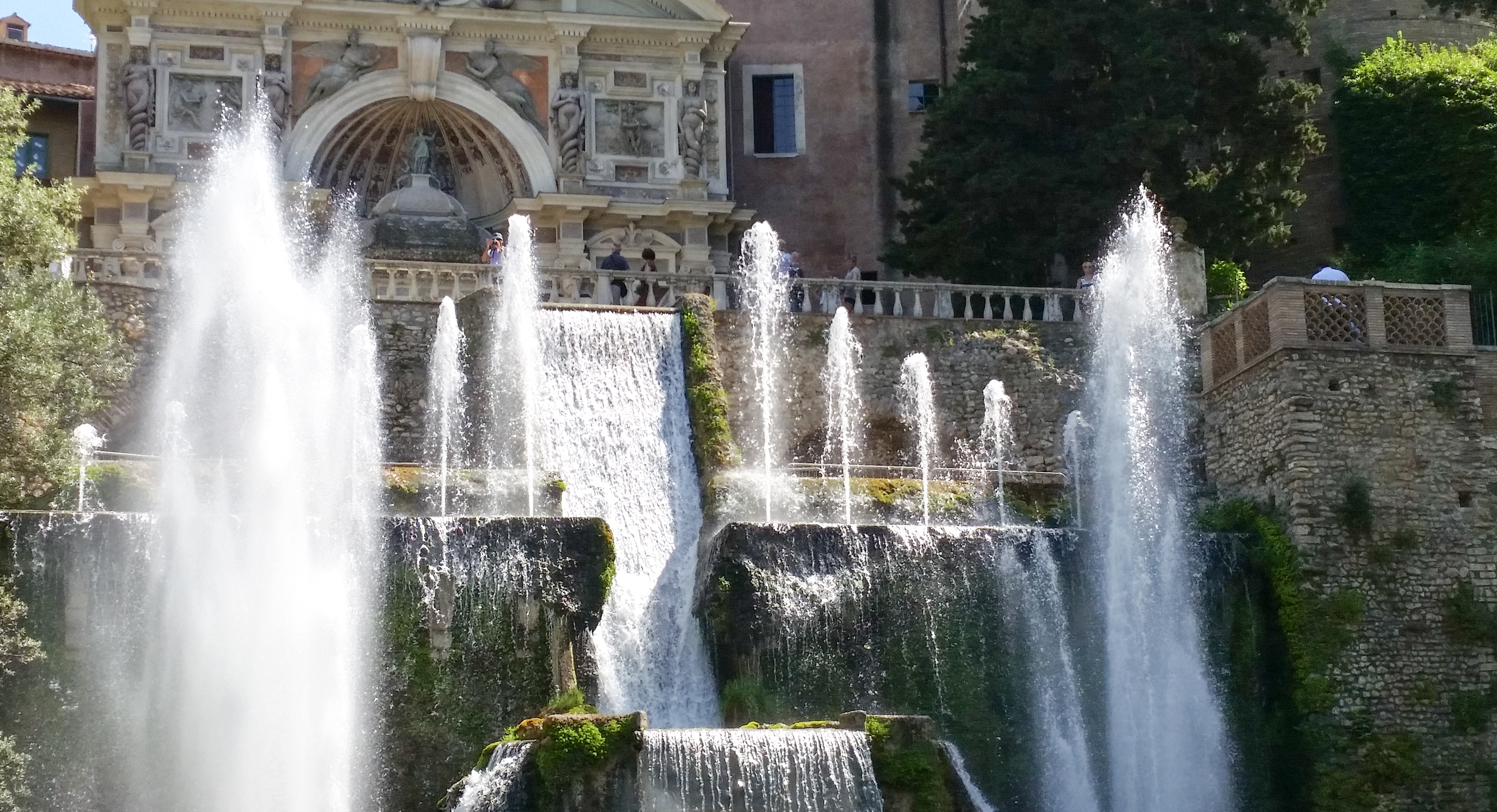 Detail from the Villa d'Este